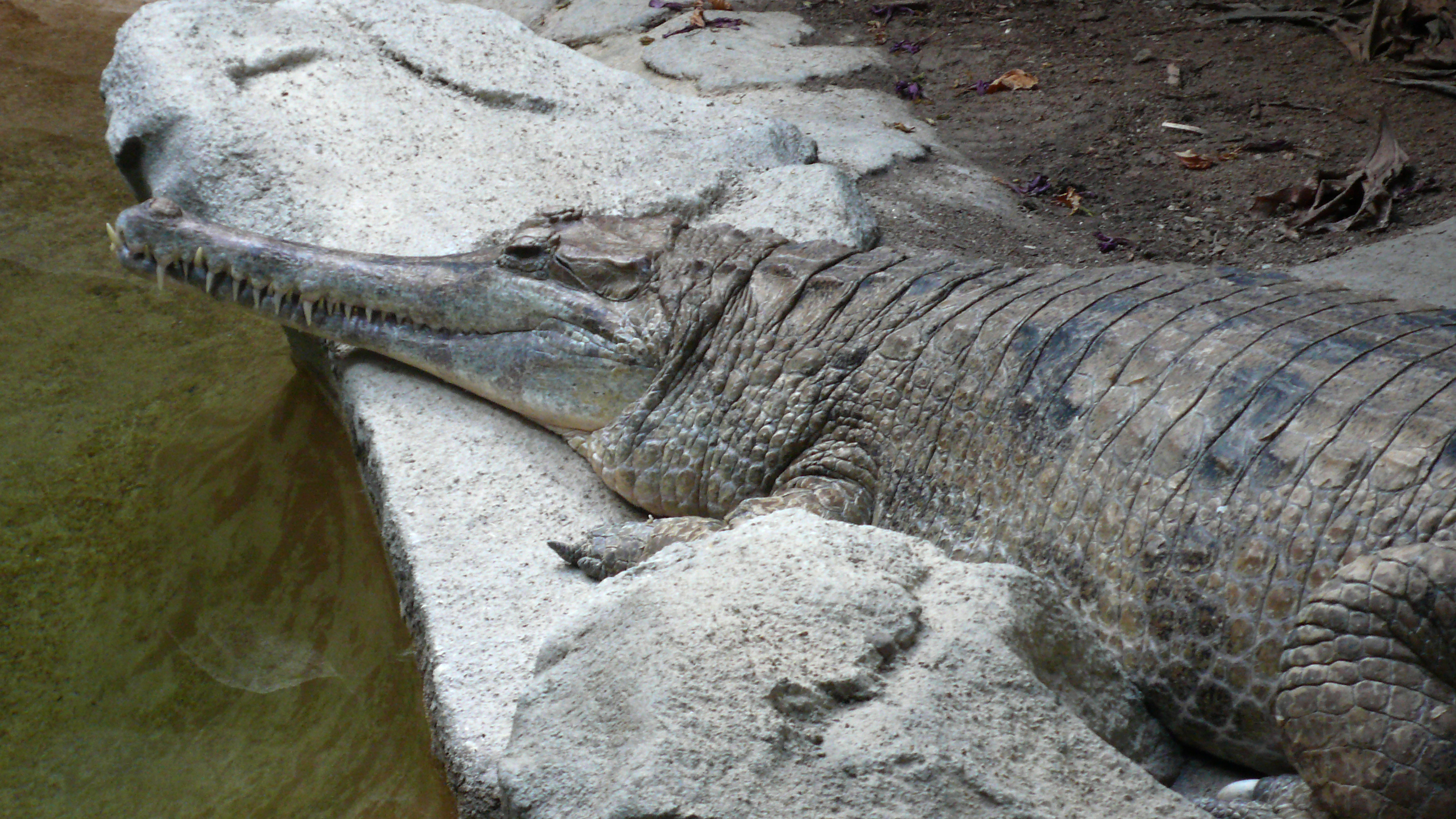 False gharial Tomistoma schlegelii